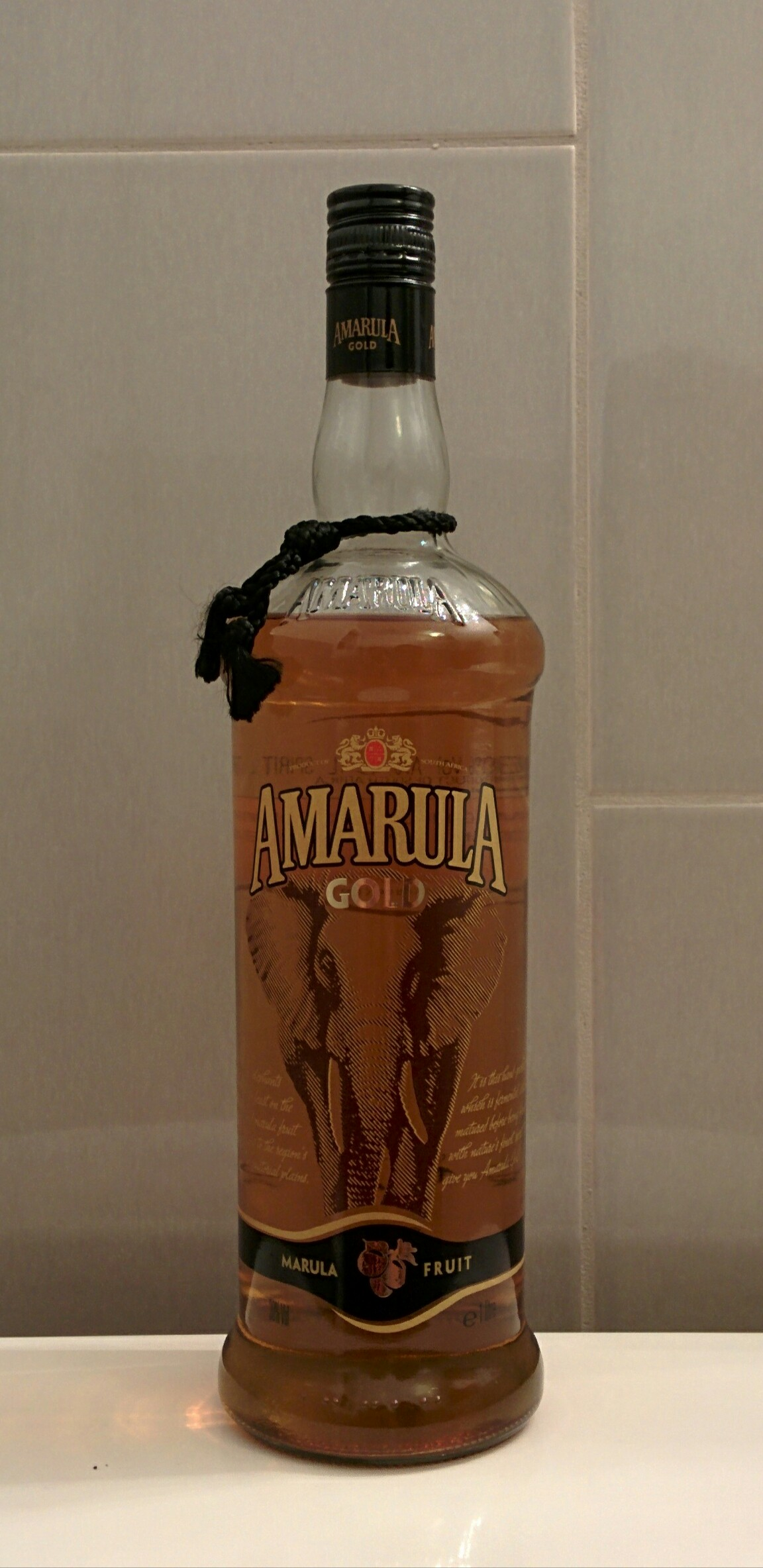 A 1 litre bottle of Amarula Gold.